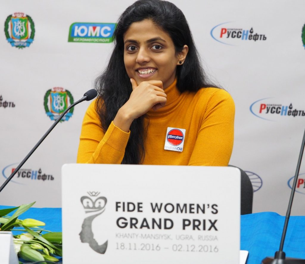 Harika during the FIDE Grand Prix in Khanty, Russia